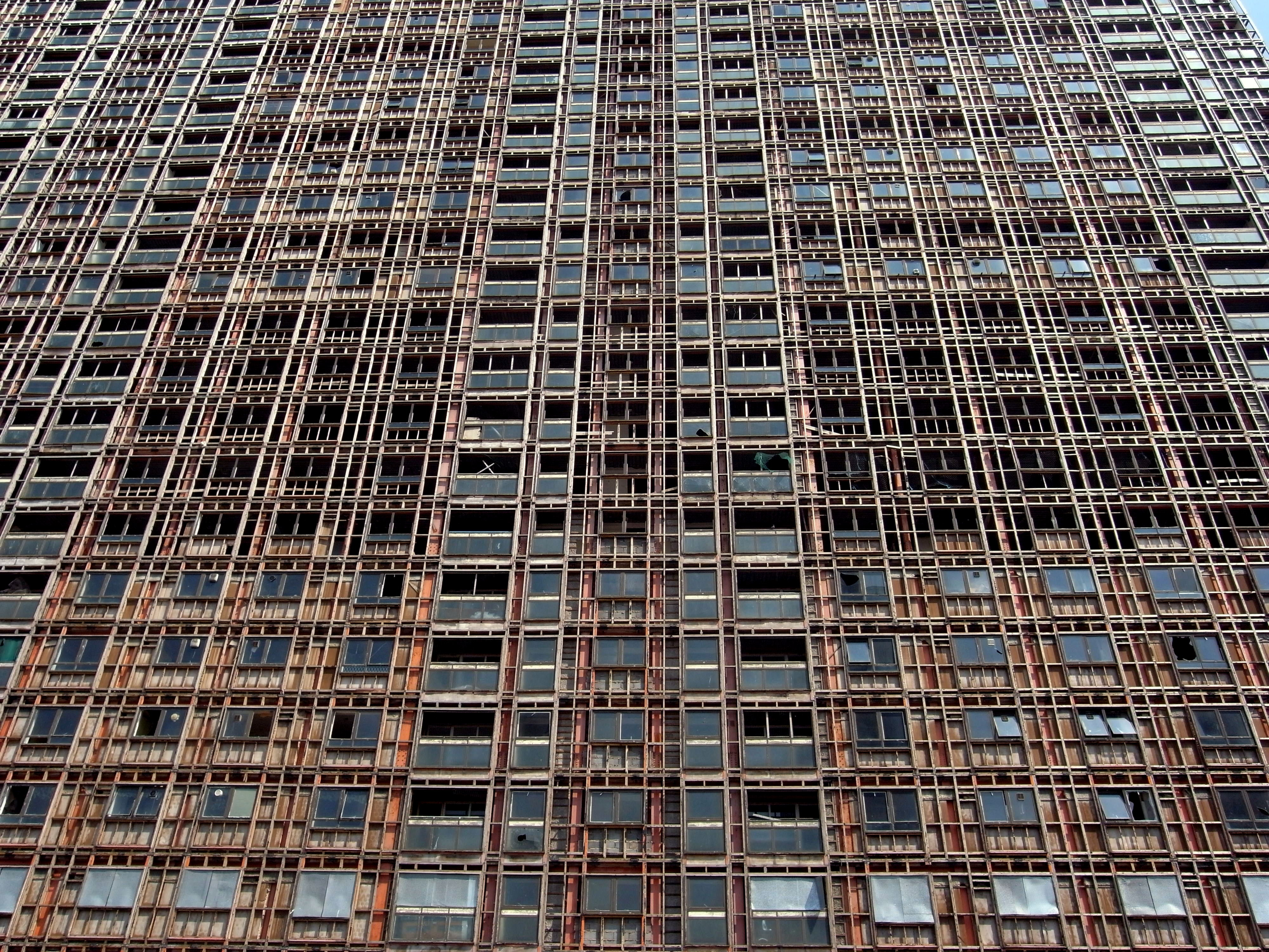 Glasgow. Balornock. Red Road Flats,153-213 Petershill Drive (view from west, before demolition).